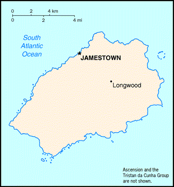 Map of St. Helena (CIA World Factbook 1997 edition) Image found here Category:Saint Helena